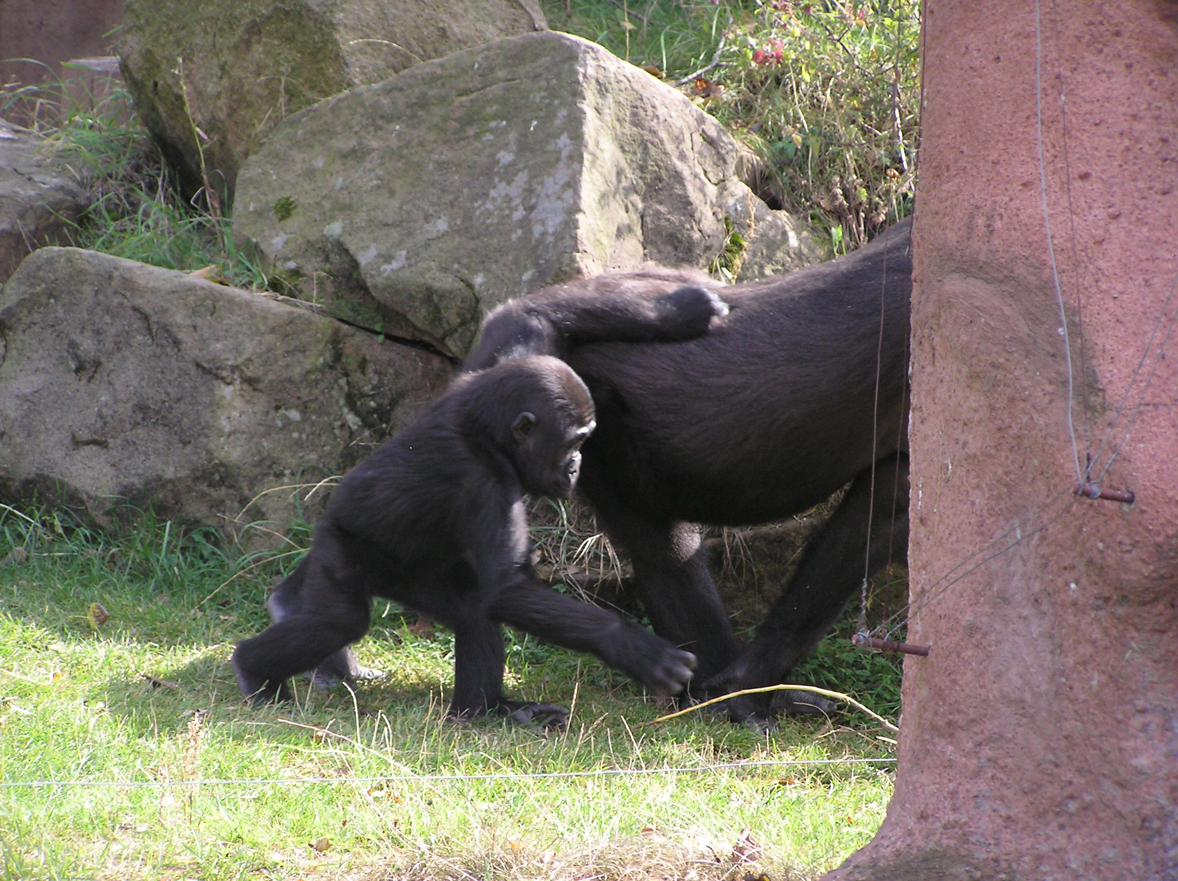 Gorilla gorilla gorilla, Moja with her mother, Prague ZOO, 2006-09-28.